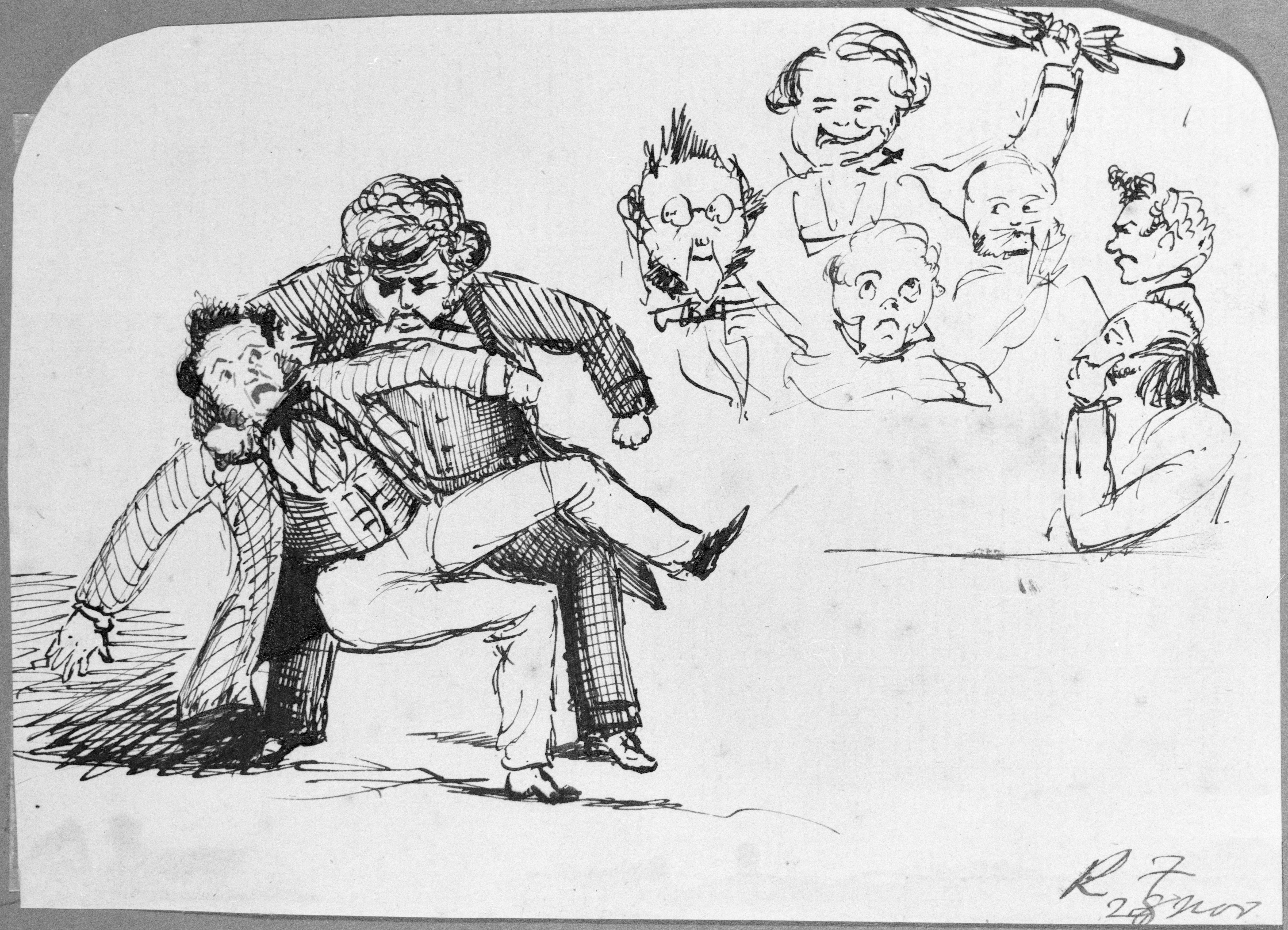 A caricature showing one man overwhelming another, and about to punch him, with a further group of men cheering them on from the background. One of the onlookers is wielding an umbrella. Possibly refers to an incident in the New Zealand Parliament (Auckland) in August 1854 when Henry Sewell grappled with James Mackay, knocking off his hat and seizing his umbrella. The dates do not match, but other details are convincing. The man doing the attacking looks somewhat like Sewell. The man on the far right resembles William Fitzherbert (covering his mouth), then a Member of Parliament. The incident in question took place at the end of the first session of the New Zealand Parliament when the Governor attempted to prorogue Parliament, while the majority in the House (including Sewell) tried to ignore this and continue the discussion. A minority, led by Edward Gibbon Wakefield and including Mackay tried to remove the quorum by leaving. Mackay returned with a copy of the Gazette with its notice proroguing Parliament. He was wearing a hat and carrying his umbrella. The wearing of a hat in Parliament was forbidden. Sewell manhandled him, punched him and pushed him out of the Chamber. The identity of 'R. F.' who has signed the drawing is not known. There was no M. P. with these initials at this period.